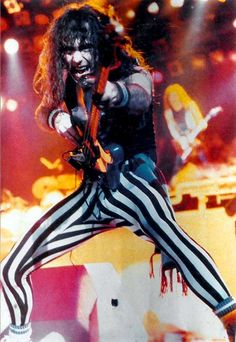 Steve Harris 1983